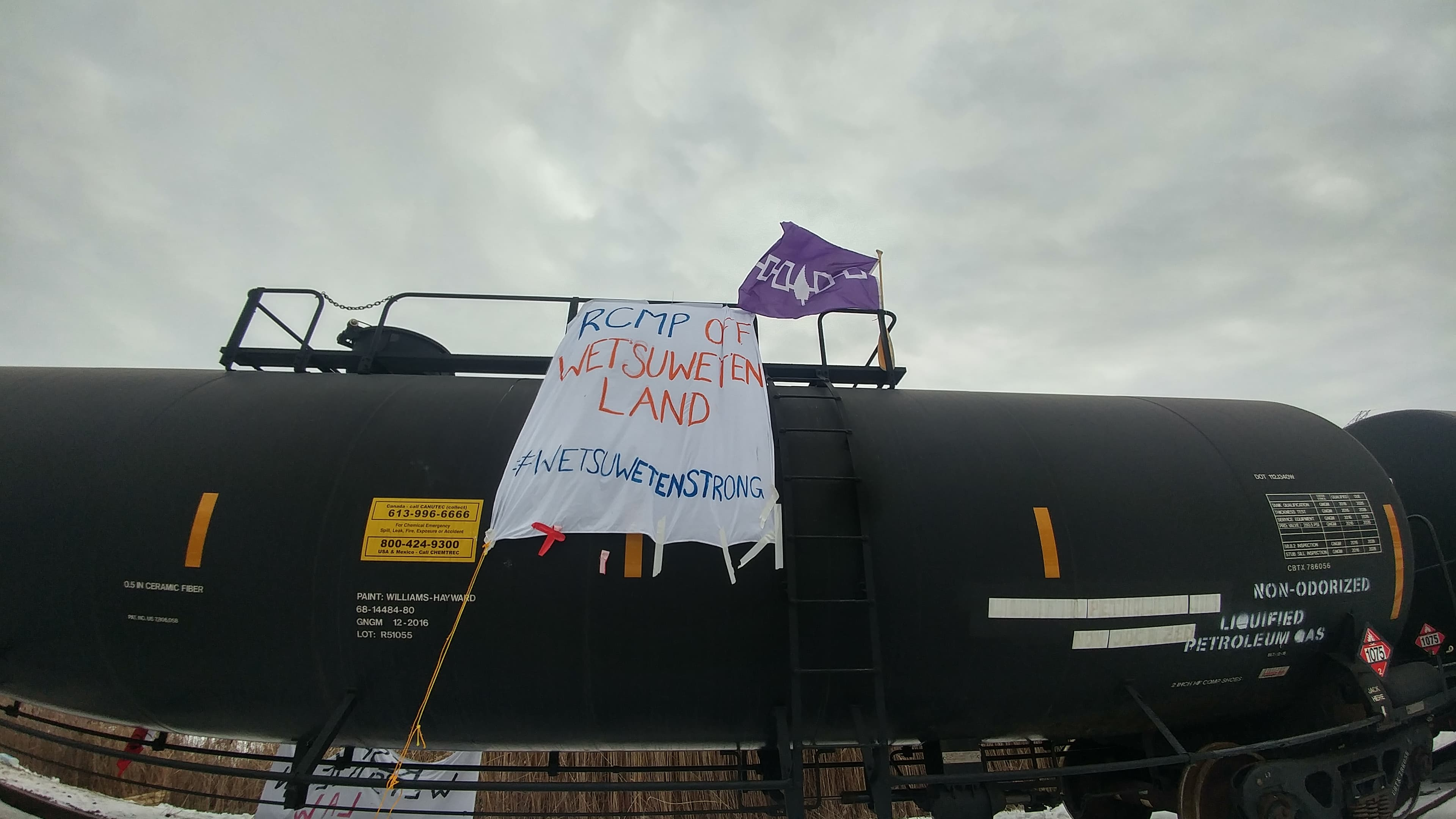 A banner painted with the words "RCMP OFF WET’SUWET’EN LAND" and the hashtag #WETSUWETENSTRONG in blue and red lettering, as well as a Haudenosaunee flag on a stopped liquefied petroleum gas tank car in Vaughan, Ontario, at a protest event on February 15, 2020 in solidarity with Wet’suwet’en hereditary chiefs opposing the Coastal GasLink Pipeline.